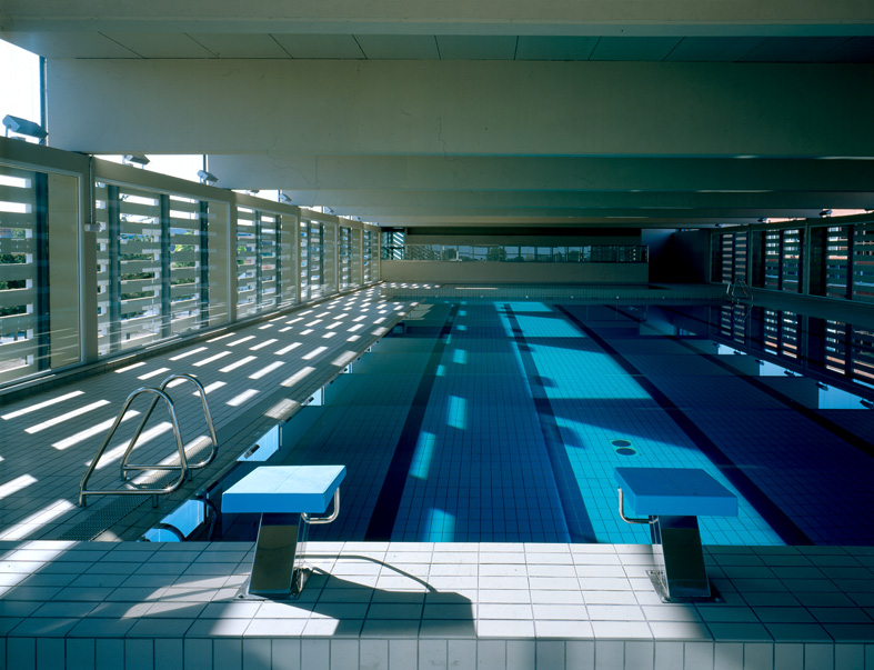 Interior view of the Indoor swiming-pool in San Fernan de Henares, Madrid, by Mansilla+Tuñón